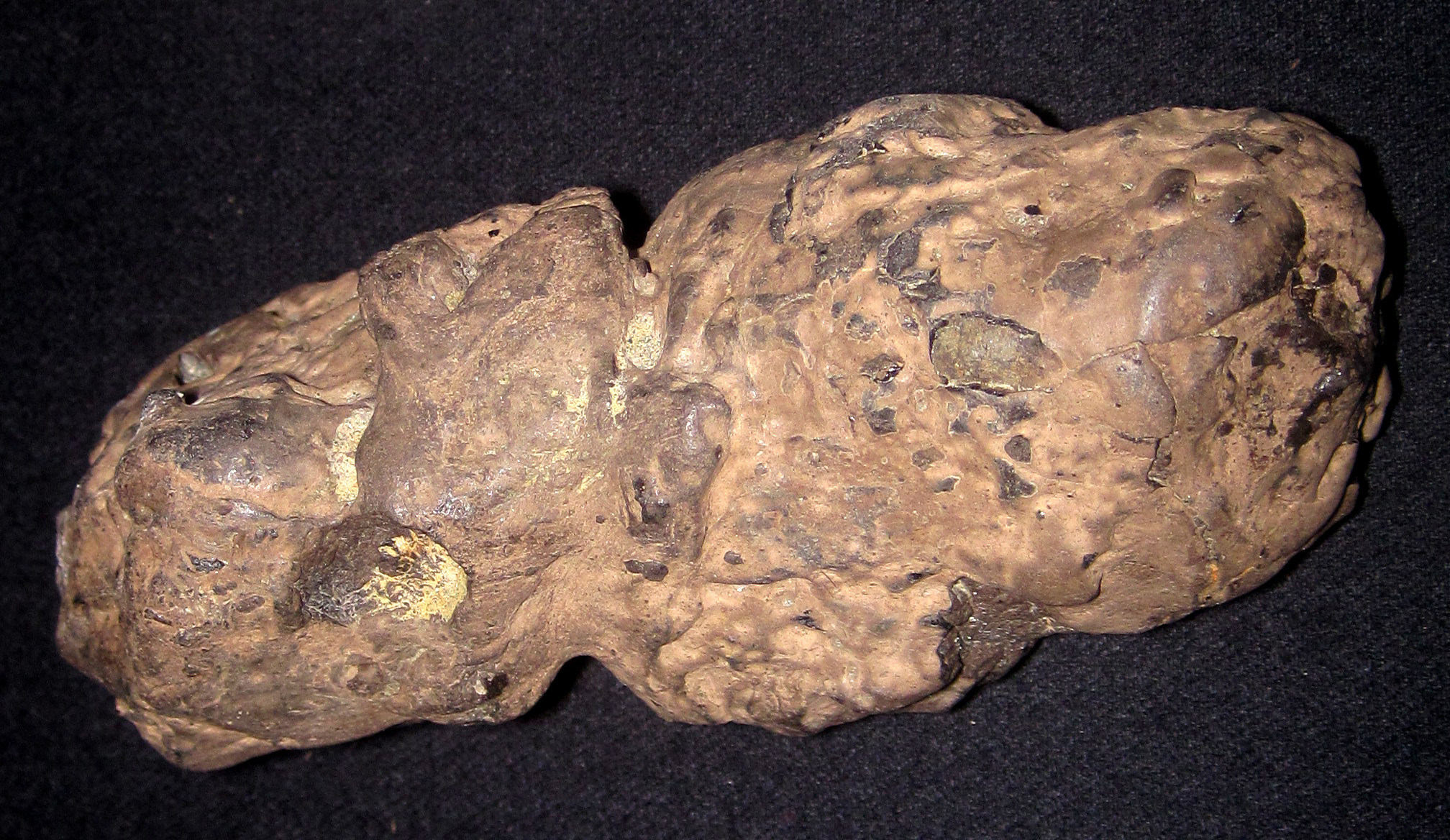 Thecachampsa crocodile coprolite from the Paleocene of Virginia, USA. Coprolites are fossilized fecal masses. They range in size from microscopic-sized pellets to moderately sizable dung piles. The most famous attributed examples are “Washington coprolites” from the Miocene Wilkes Formation of Washington State, USA. But these are now considered cololites (intestinal casts). True coprolites are fossilized dung. Thin sections of coprolites often reveal fragments of incompletely digested plant matter or sometimes undigested animal tissue. So, coprolite studies can provide information about the diet of ancient organisms, assuming the coprolite maker is known with some specificity (which is often not the case). This coprolite has been attributed to a Thecachampsa crocodilian. Stratigraphy: Aquia Formation, Upper Paleocene Locality: shores of the Potomac River, King George County, northeastern Virginia, USA Biogenic products are objects produced by ancient oragnisms. Many paleontologists refer to these as trace fossils, but they really aren't. Examples of fossil biogenic products include eggs, amber (fossilized tree sap), coprolites (fossilized feces), and spider silk.